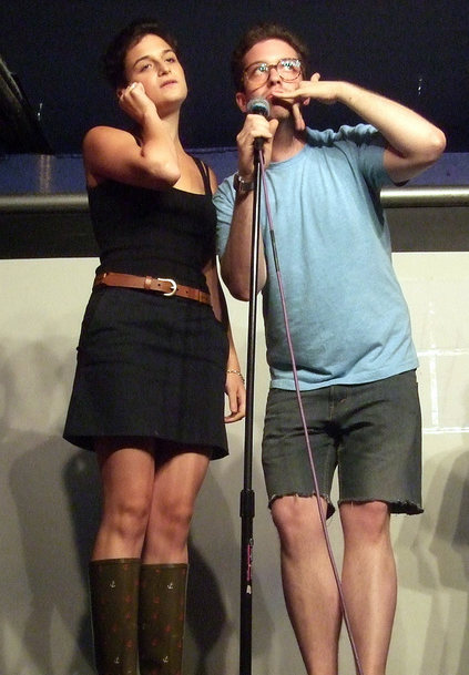 Jenny Slate and Gabe Liedman in Brooklyn on July 10, 2007